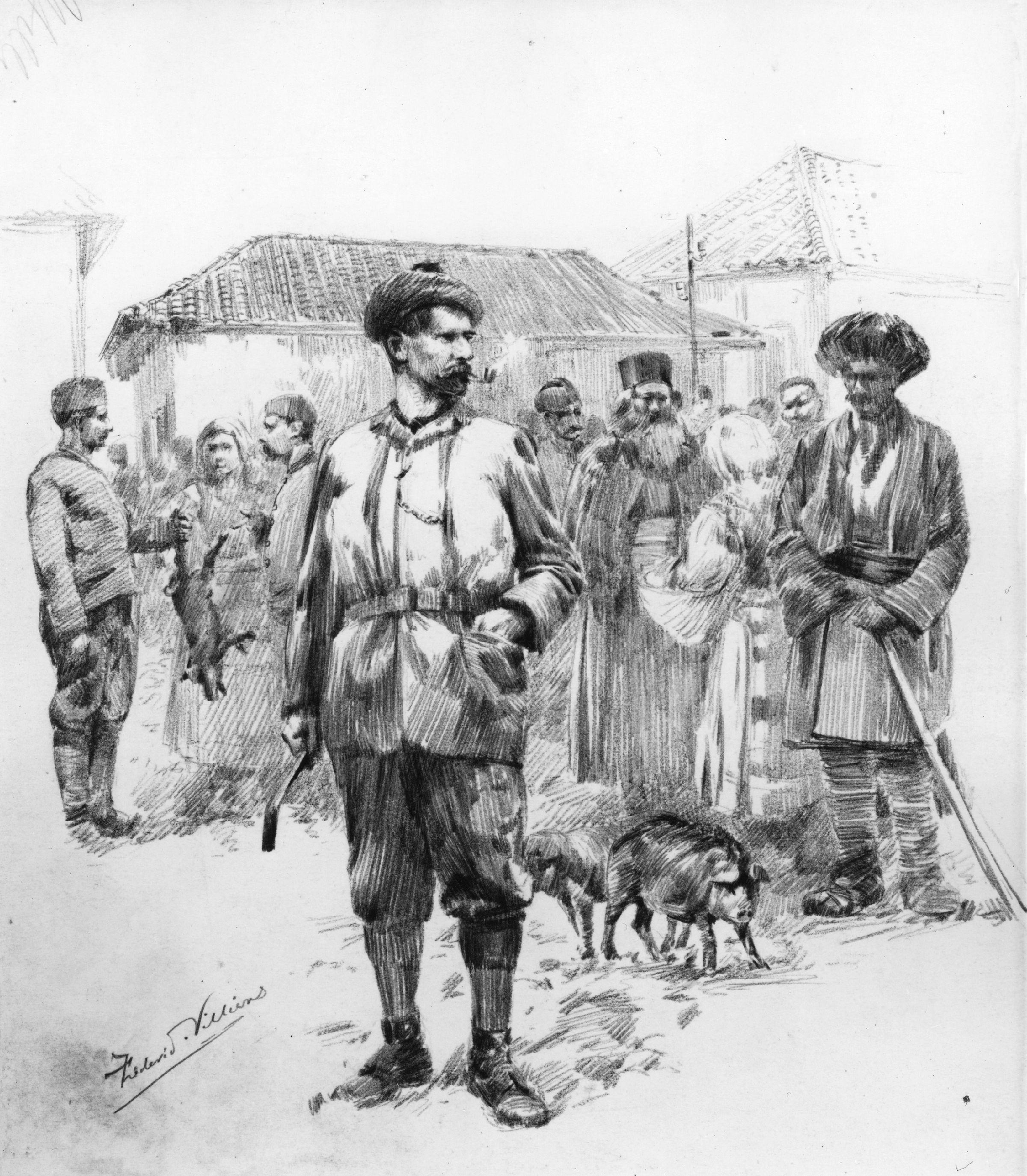 Archibald Forbes and others, pencil drawing by Frederic Villiers (died 1922), given to the National Portrait Gallery, London in 1938. All images in this batch have been confirmed as author died before 1939 according to the official death date listed by the NPG.